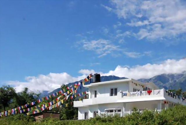 Exterior view of the Kunpan Cultural School (ES Tibet foundation) building in Dharamsala, Himachal Pradesh, India.